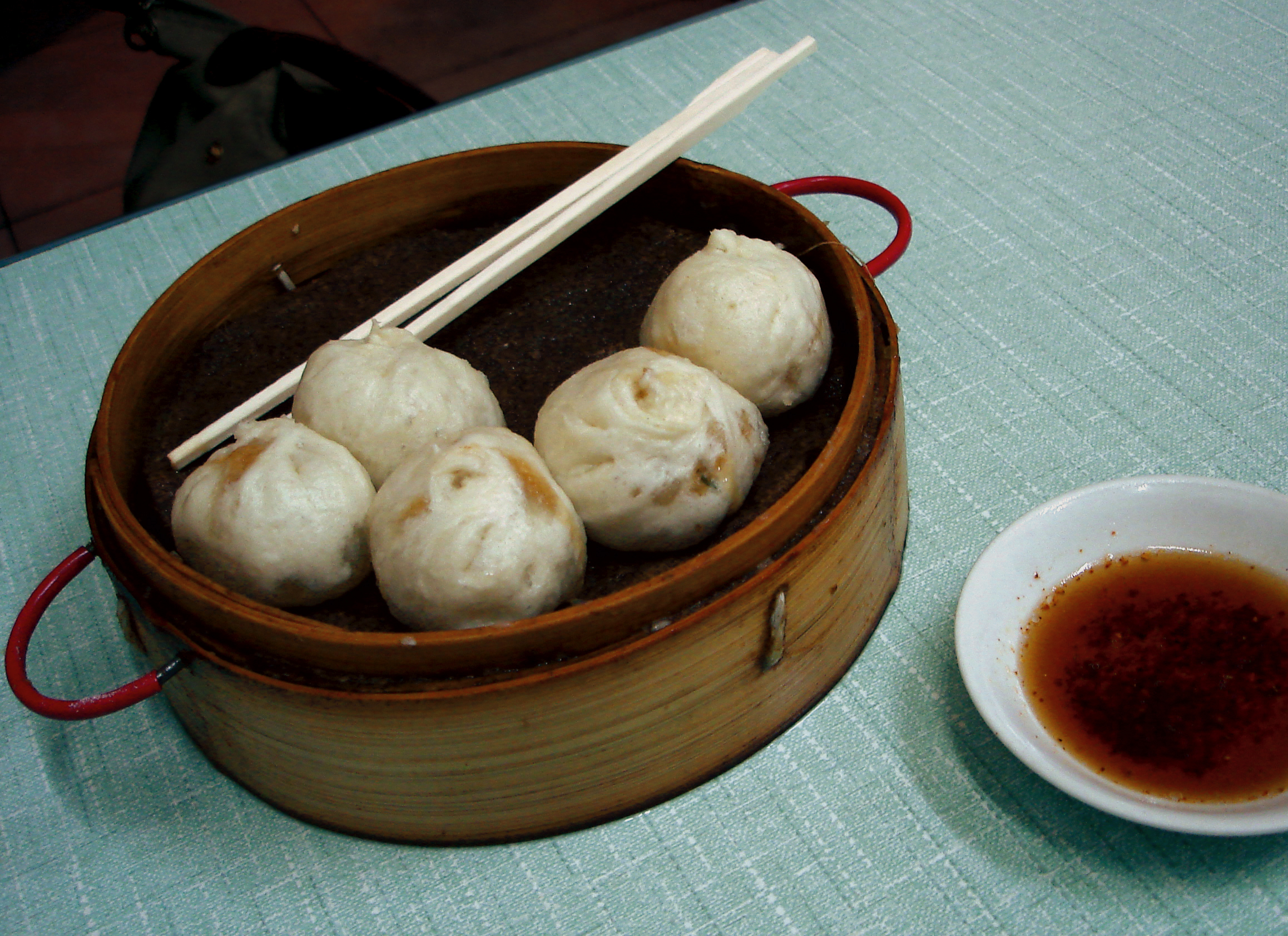 baozi, chinese food in a beijing restaurant